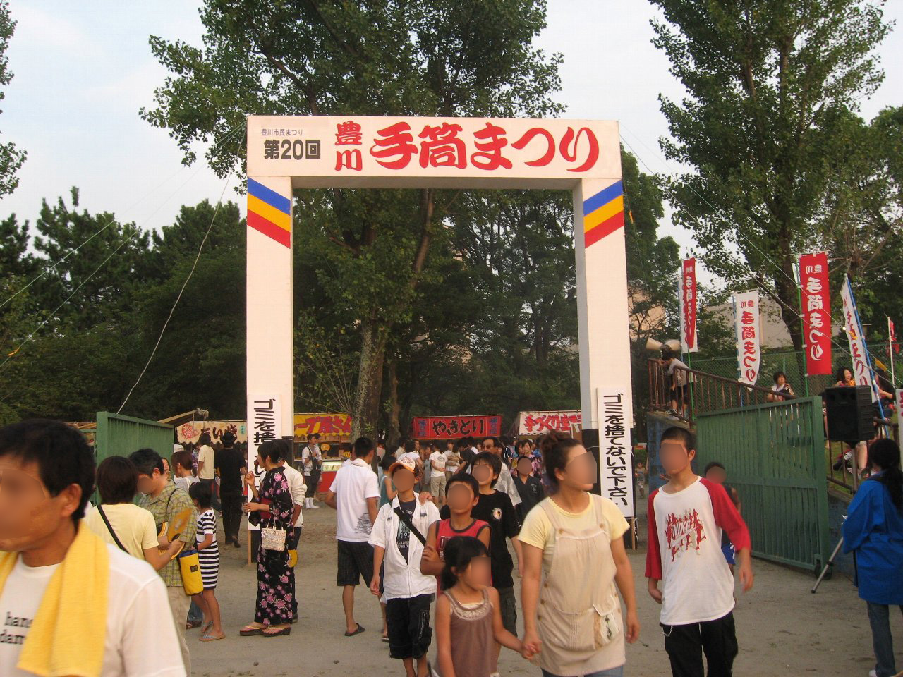 豊川手筒まつりの会場入口ゲート (The Gate of Toyokawa Tezutsu Matsuri(Toyokawa Hand-held fireworks Festical))